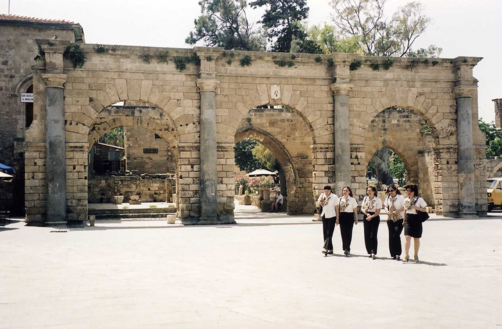 This is an archive photo I took on holiday 4 or 5 years ago in Northern Cyprus. I was prompted to include this shot having recently seen a very beautiful series of photos taken on and near the ramparts by my fellow Flickr photographer friend, Armagan. My photo is more pedestrian and touristic but I was very fascinated by the city and its culture.